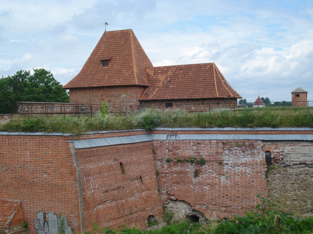 The Bastion of Vilnius Defence Wall. 20/18 Bokšto Str.